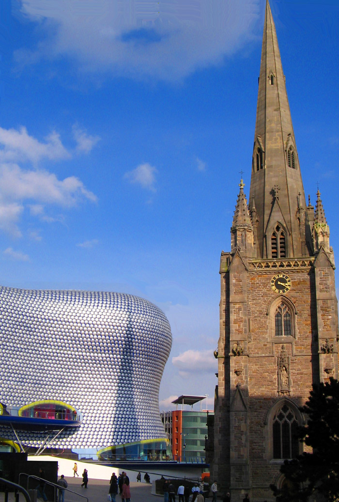 Central Birmingham, England. On the right in the foreground is St Martin's parish church. On the left in the background is the Future Systems Selfridges building: part of the Bullring shopping centre.